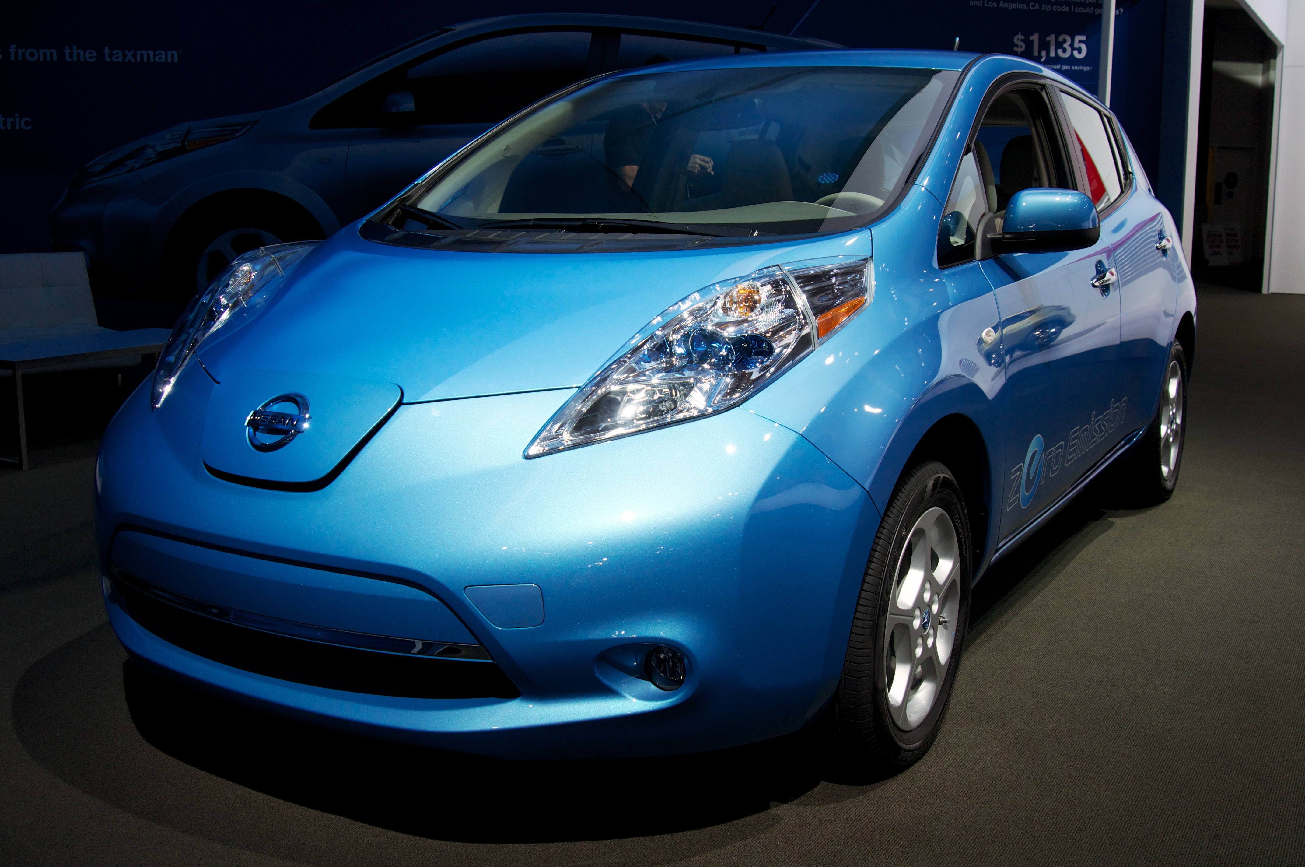 2013 Nissan Leaf electric car at the 2012 Los Angeles Auto Show